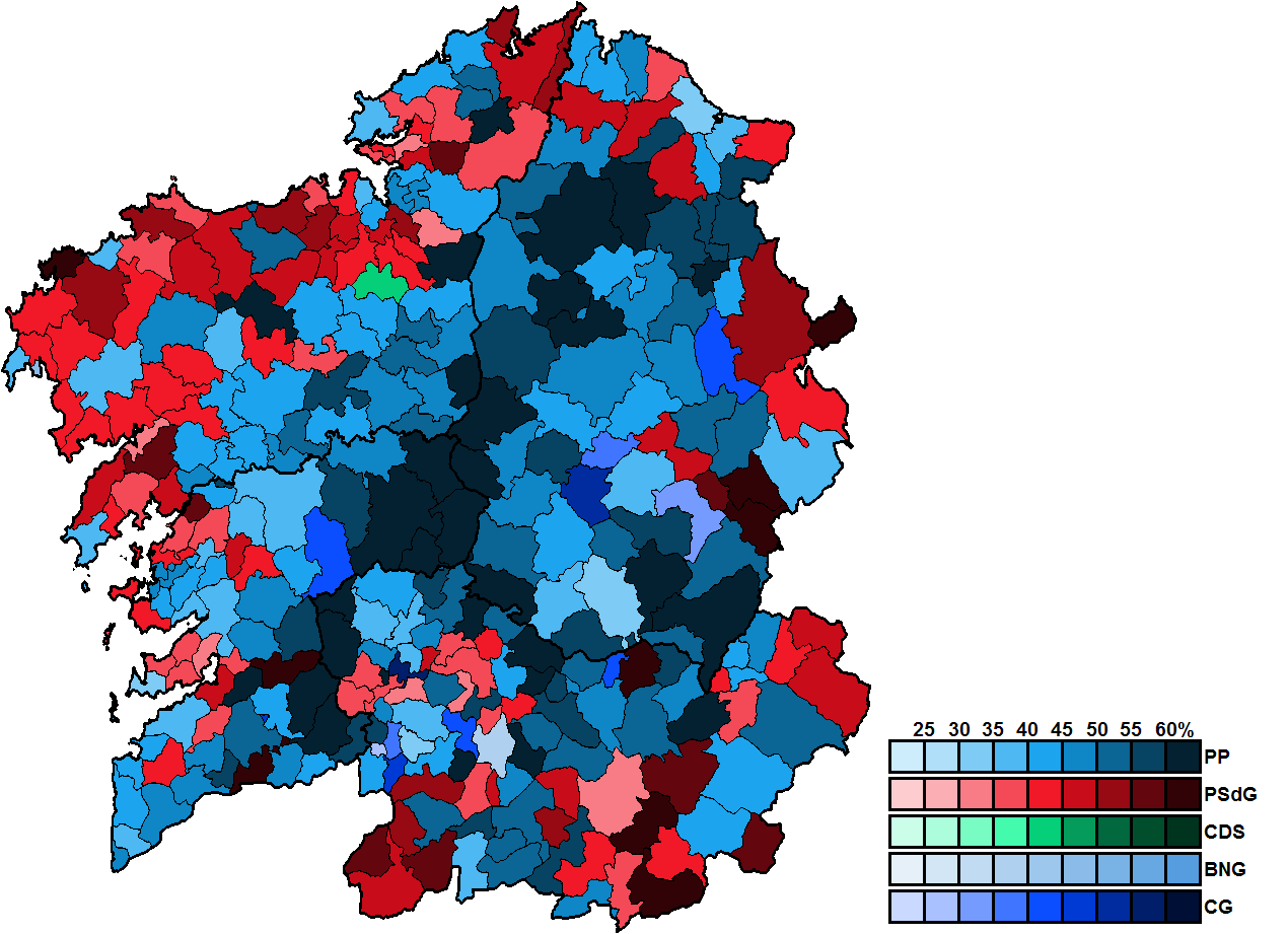 Most-voted party in Galicia municipalities, showing vote share obtained, in the Spanish general election, 1989.